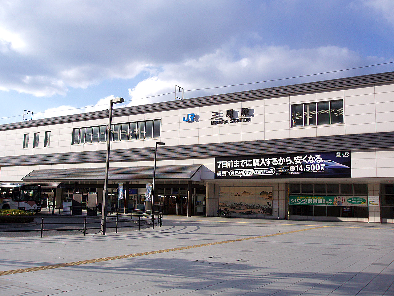 West Japan Railway Sanyo Main Line & Kure Line Mihara Station Building South Gate 西日本旅客鉄道 山陽本線＆呉線 三原駅 駅舎 南出口